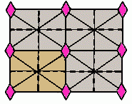 Cell diagram for wallpaper group type pgg. Clipped version of Wallpapercellpgg.gif.